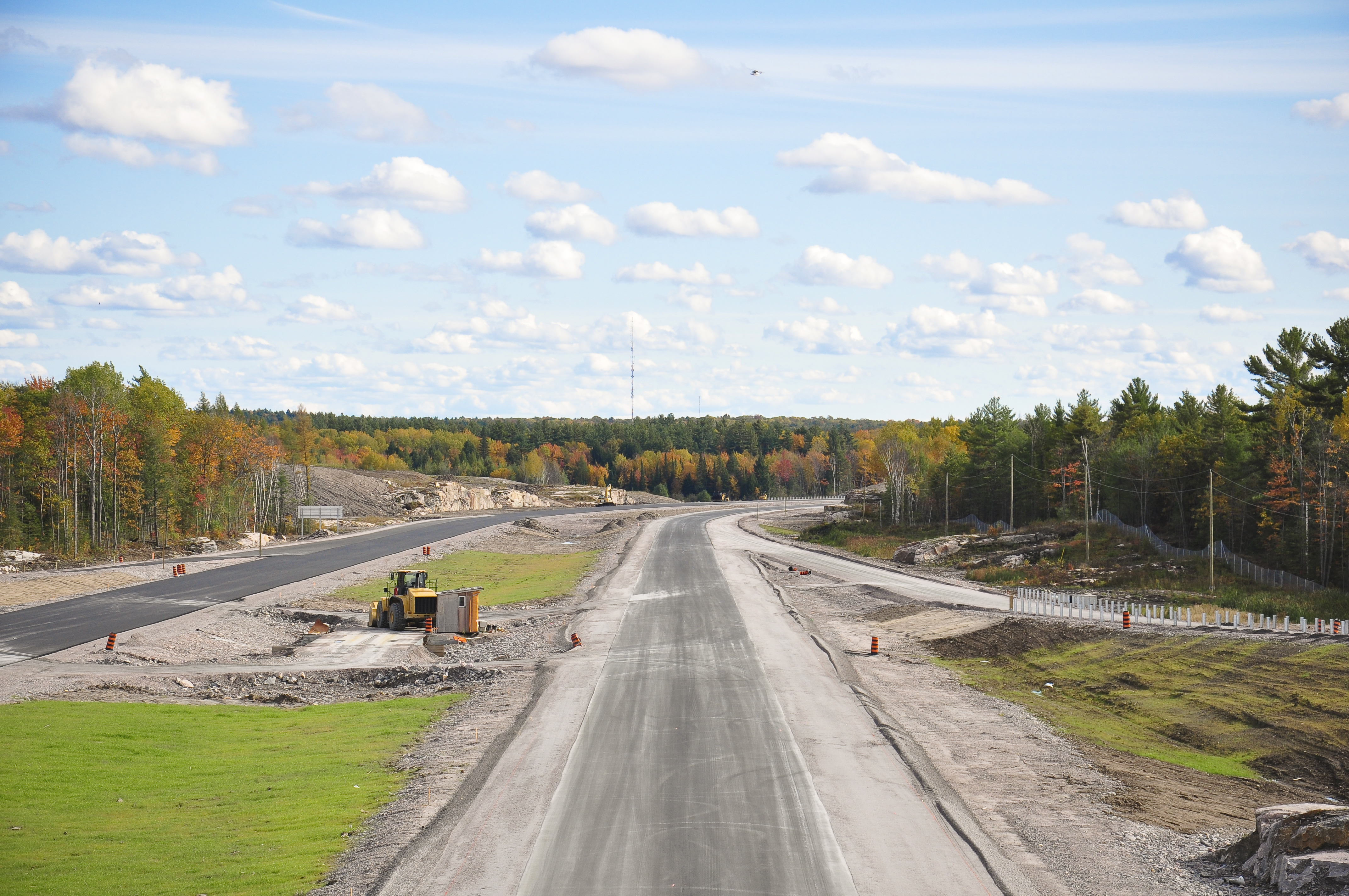 Highway 400 Extension between Barrie and Sudbury, Ontario.